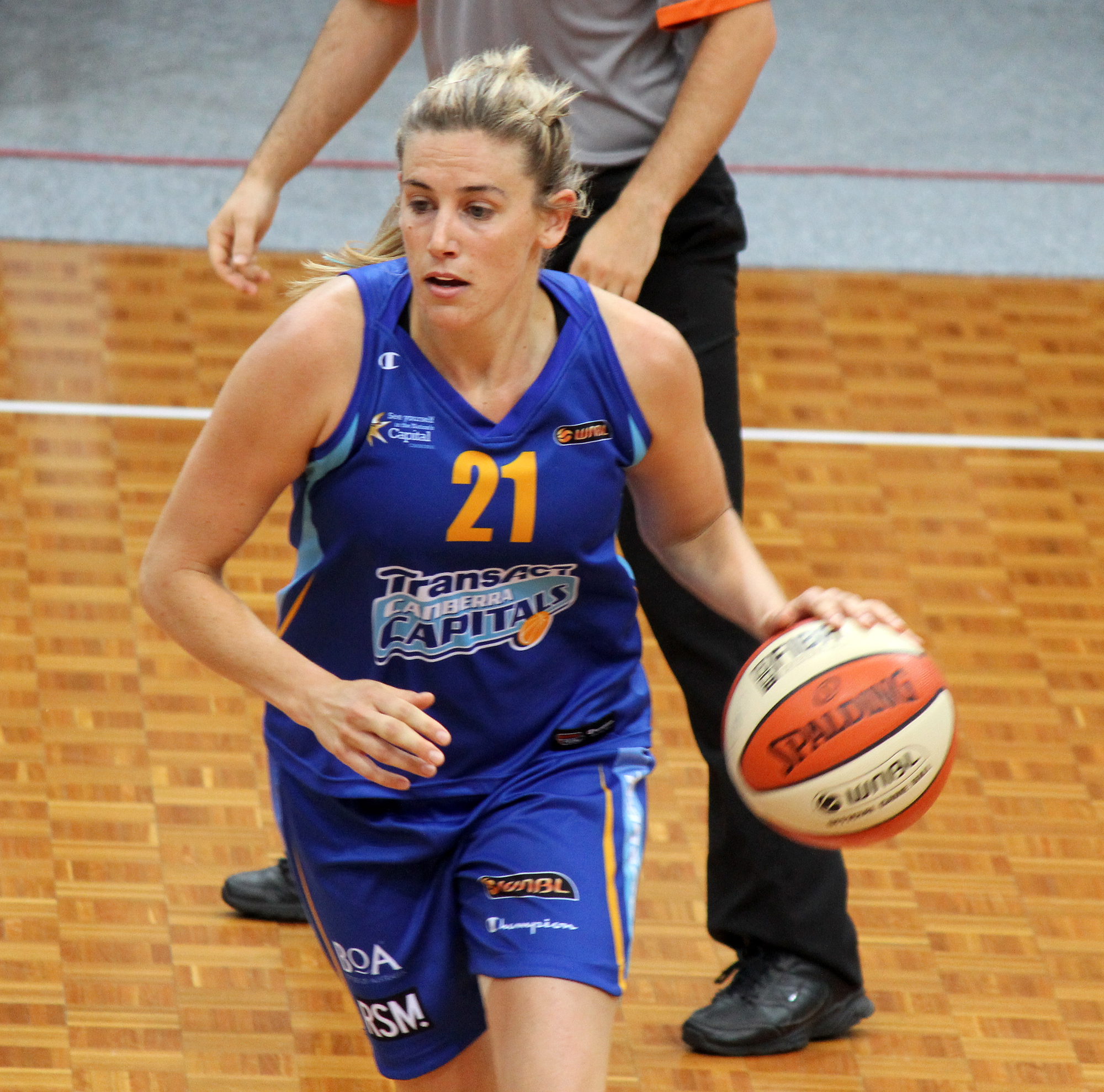 Hannah Bowley at the Canberra Capitals vs Logan Thunder held at AIS Arena at the Australian Institute of Sport